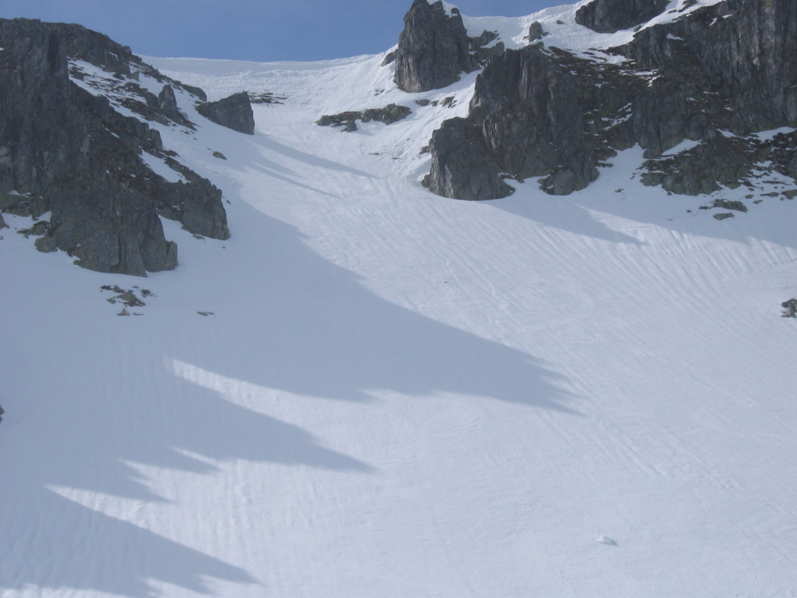 Canal de la Antena. San Isidro.